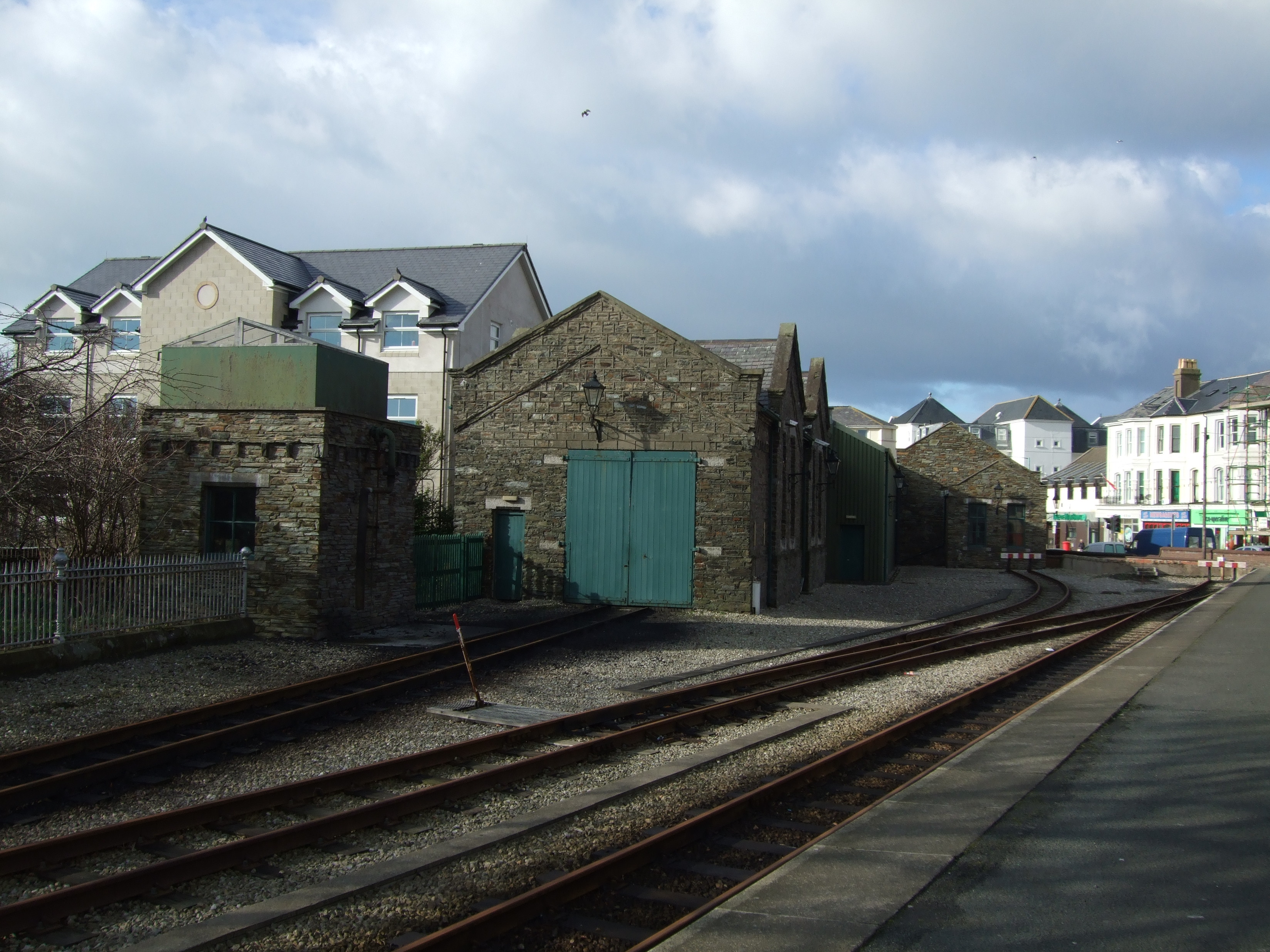 Railway sheds at Port Erin